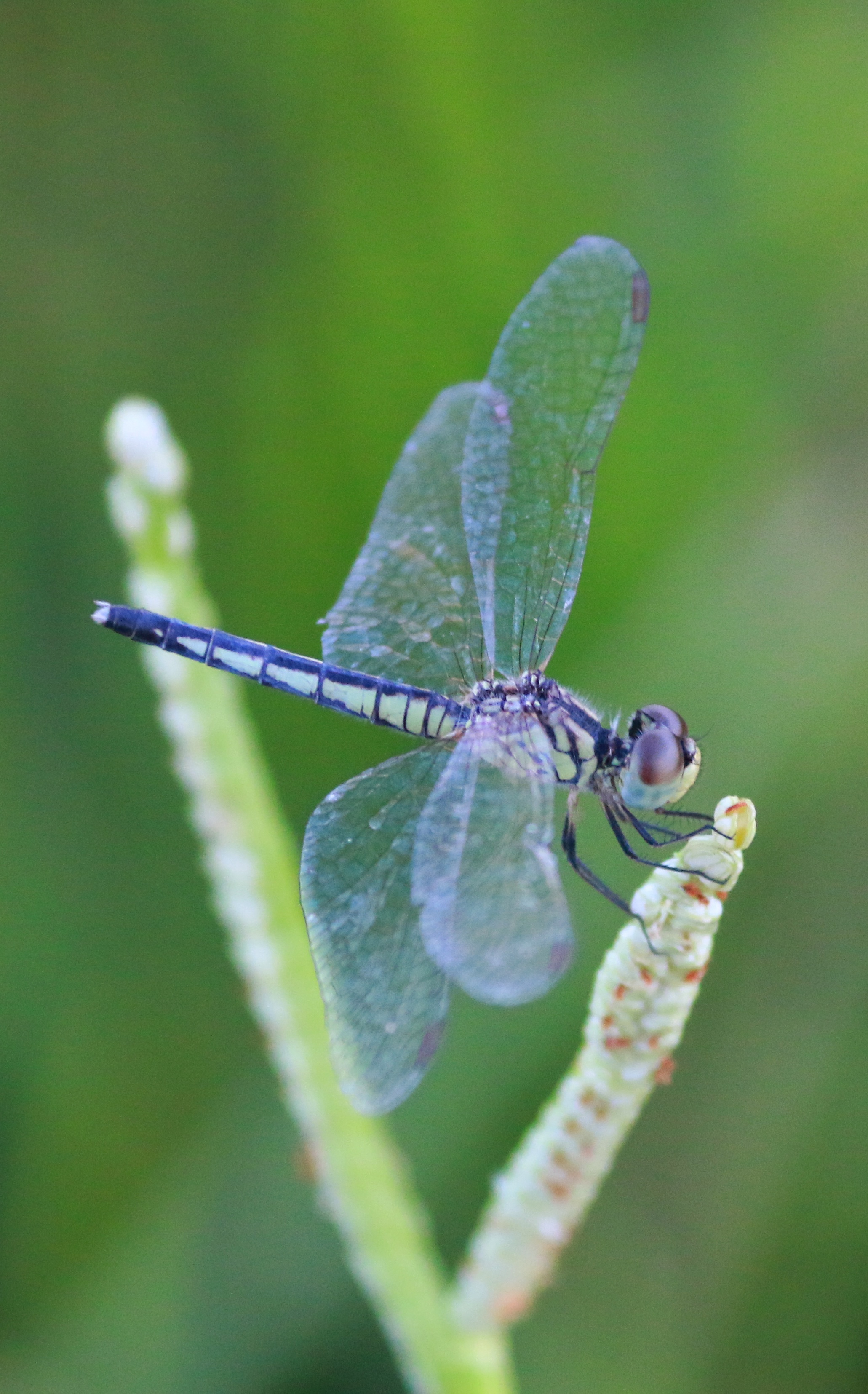 Diplacodes nebulosa, female